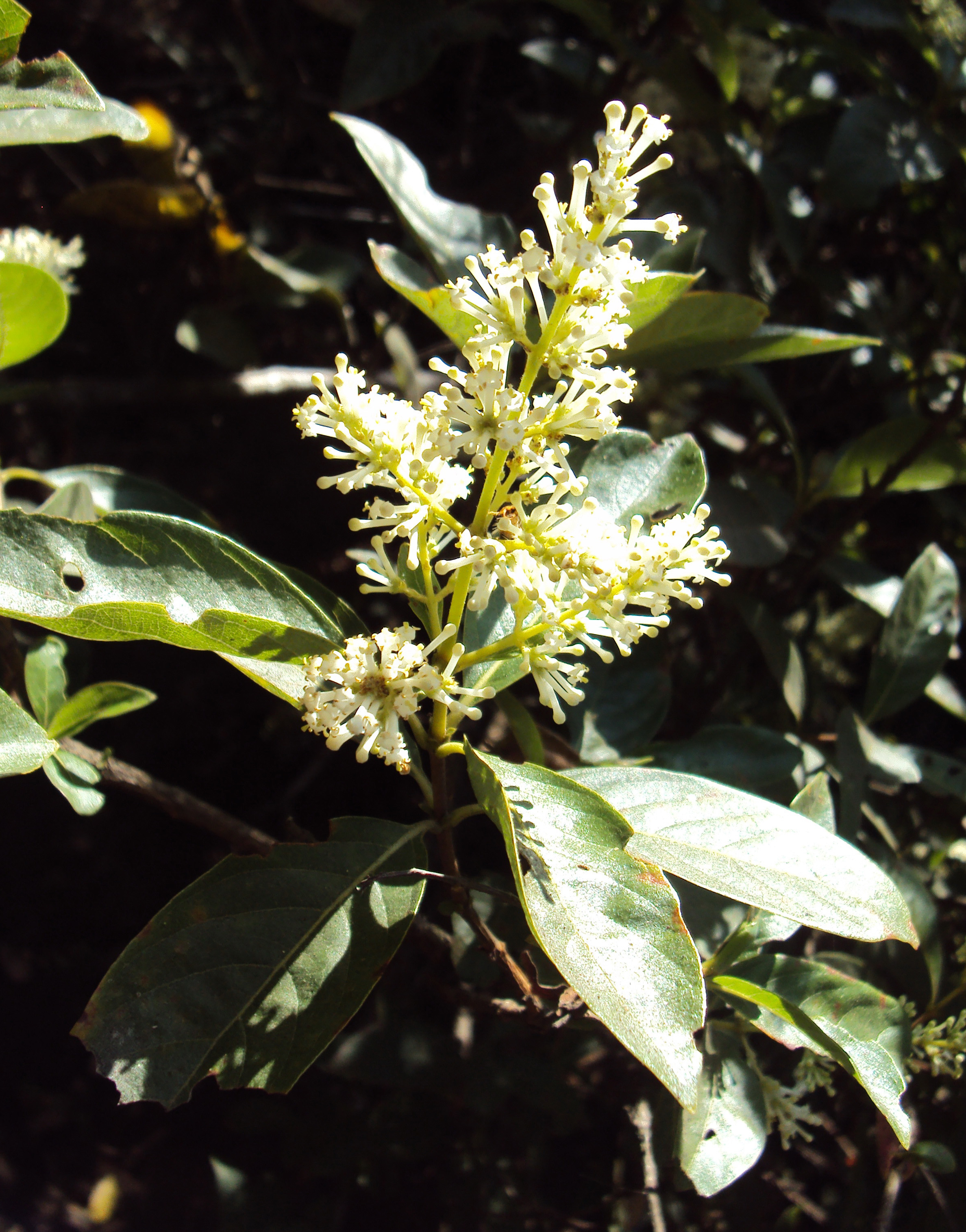 Wendlandia thyrsoidea